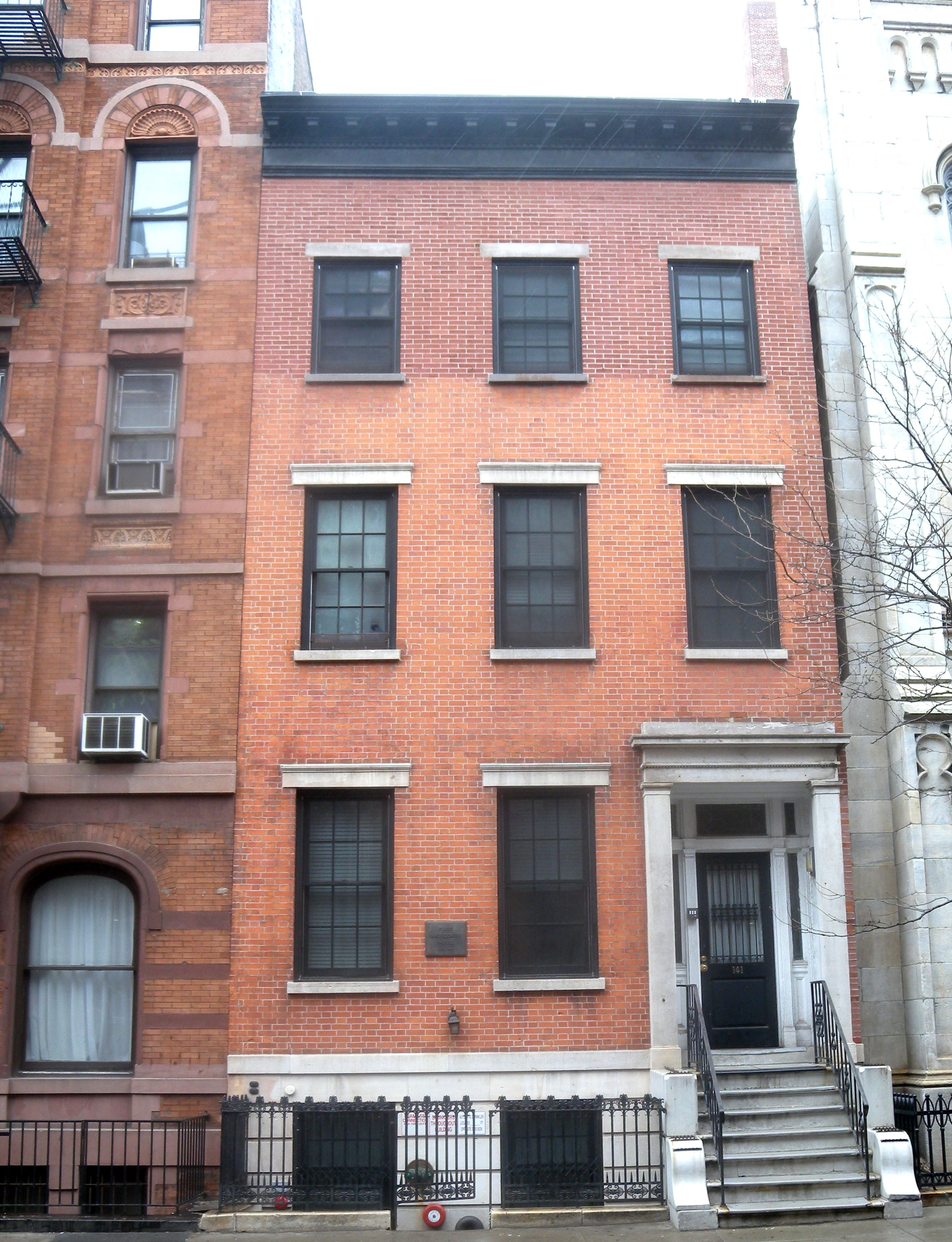 Looking north across West 4th Street at Plato Malozemoff house on a cloudy morning.